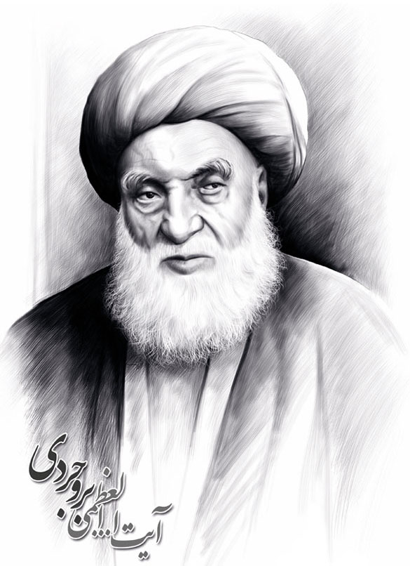 Portrait of Seyyed Hossein Borujerdi by Abbas Goudarzi.